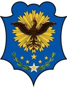 Merina Kingdom coat of arms